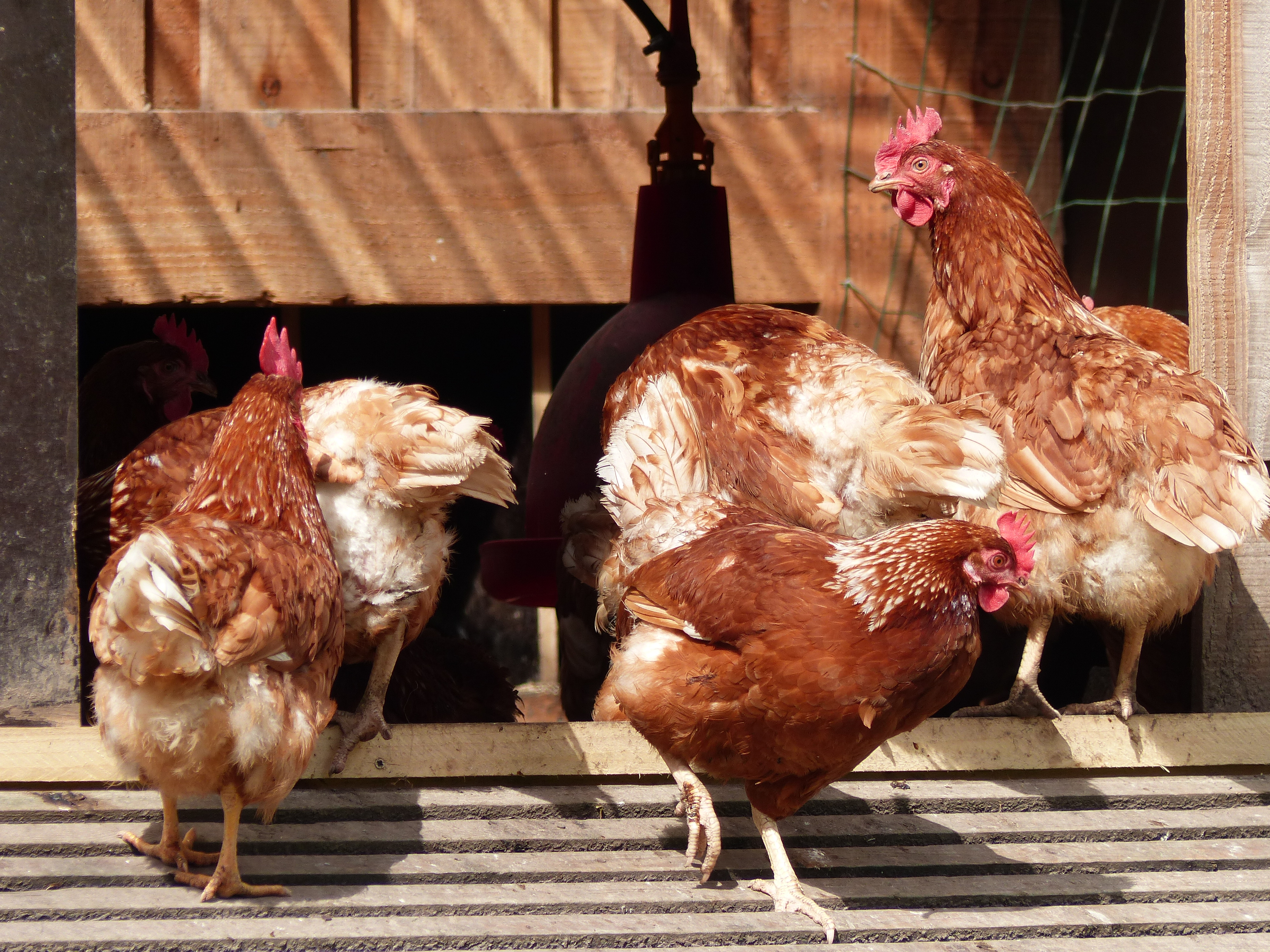 Free-range hens in a chicken coop, biological farm, Bailleul-Neuville, Normandy, France